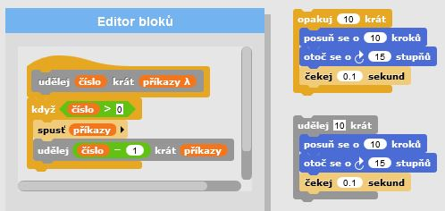 Snap! 4.0 customs block having a procedure as the second input.